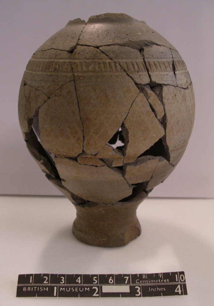 A Roman coin hoard of 621 Allectus and Carausius coins, to be identified by Richard Abdy at the British Museum under the Treasure Act. The full find and excavation report is held at BM and Suffolk SMR, see provisional shorter report below. 621 BI radiates to AD 296 Found with the aid of a metal detector, 11.10.2005. This large Carausius and Allectus hoard belongs to the class 'which virtually exclude Allectan 'quinarii', the unmarked antoniniani of Carausius...and antoniniani struck before Aurelian's reform' . In this provisional examination prior to cleaning the hoard appears to contain one, three and none of these types respectively. PROVISIONAL CATALOGUE SUMMARY Probus (Ticinum, RIC 550) 1 Carausius (258): No mintmark 3 London m.-m. (144) qty. 'C' mint m.-m. (107) qty. ML 1 C 4 L -//ML 2 MC 1 F O//ML 6 SMC - B E//MLXXI 41 CXXI; MCXXI 1 S C//MLXXI 1 S C/C; SC; SP 6; 21; 31 S P//MLXXI 79 S P/C 43 S P//ML 14 mintmark illegible: - -// 1 mintmark illegible: S P// 3 mintmark illegible 8 obverse brockage 1 Carausius for Diocletian (9): London m.-m. qty. 'C' mint m.-m. qty. S P//MLXXI 3 S P//C 1 Carausius for Maximian (6): London m.-m. qty. 'C' mint m.-m. qty. S P//MLXXI 3 S P//C 2 mintmark illegible 1 Allectus (347): London m.-m. (230) qty. 'C' mint m.-m. (100) qty. S P//ML 49 S P//C 98 ML 1 SPC 1 S A//ML 141 QC 1 S [A or P]//ML 25 S A//MSL 14 mintmark illegible (S P// ) 13 fused by the reverse 2 obverse brockage 2 Total 621